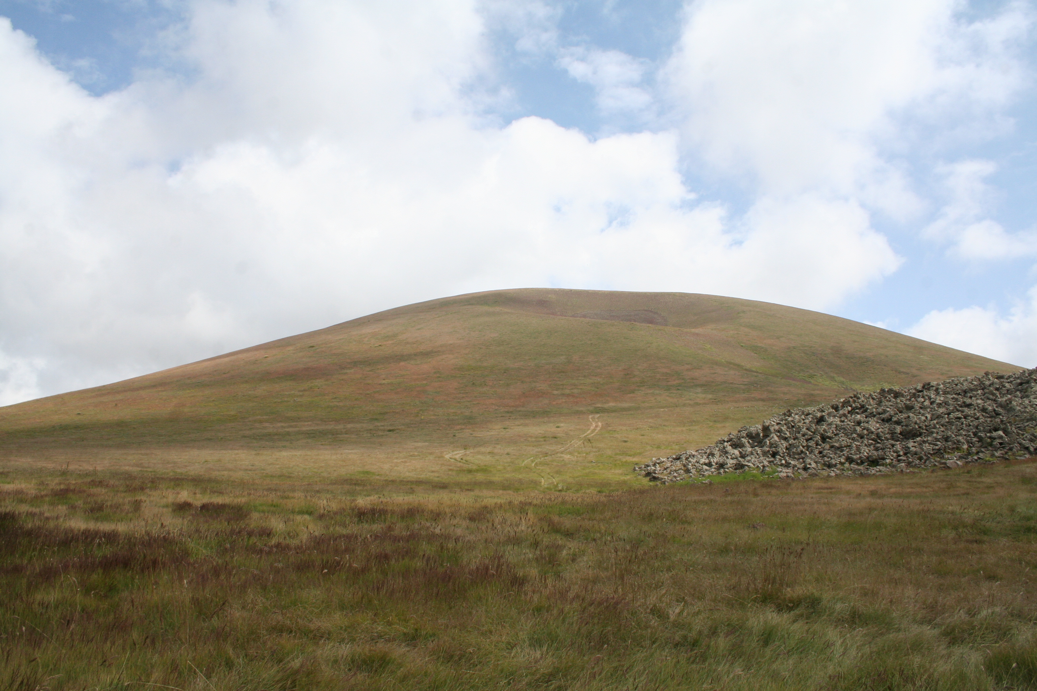 Mount Naseli in the Highland of Syunik, Armenia